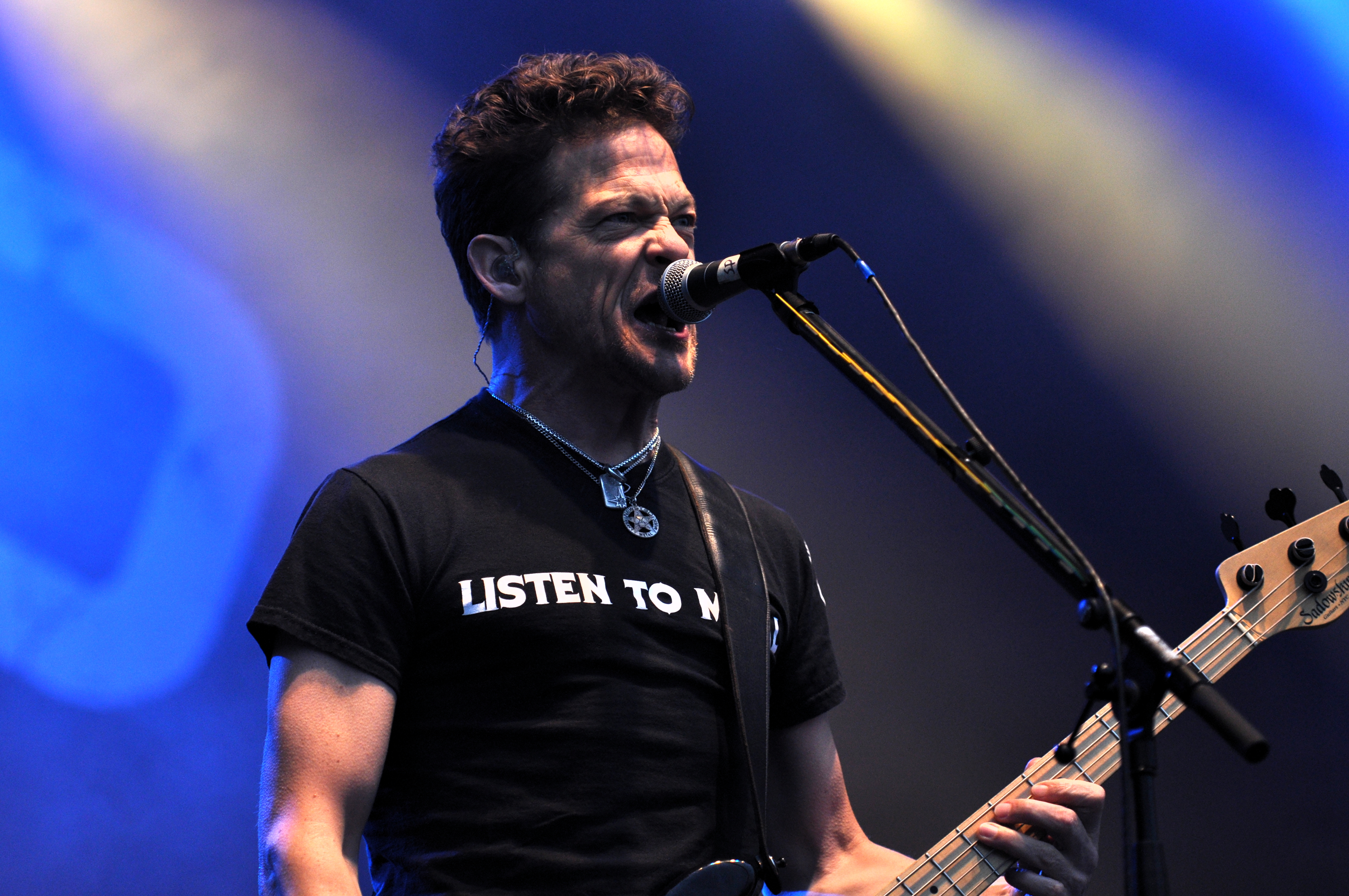 Jason Newsted with his Band Newsted at Rock am Ring 2013